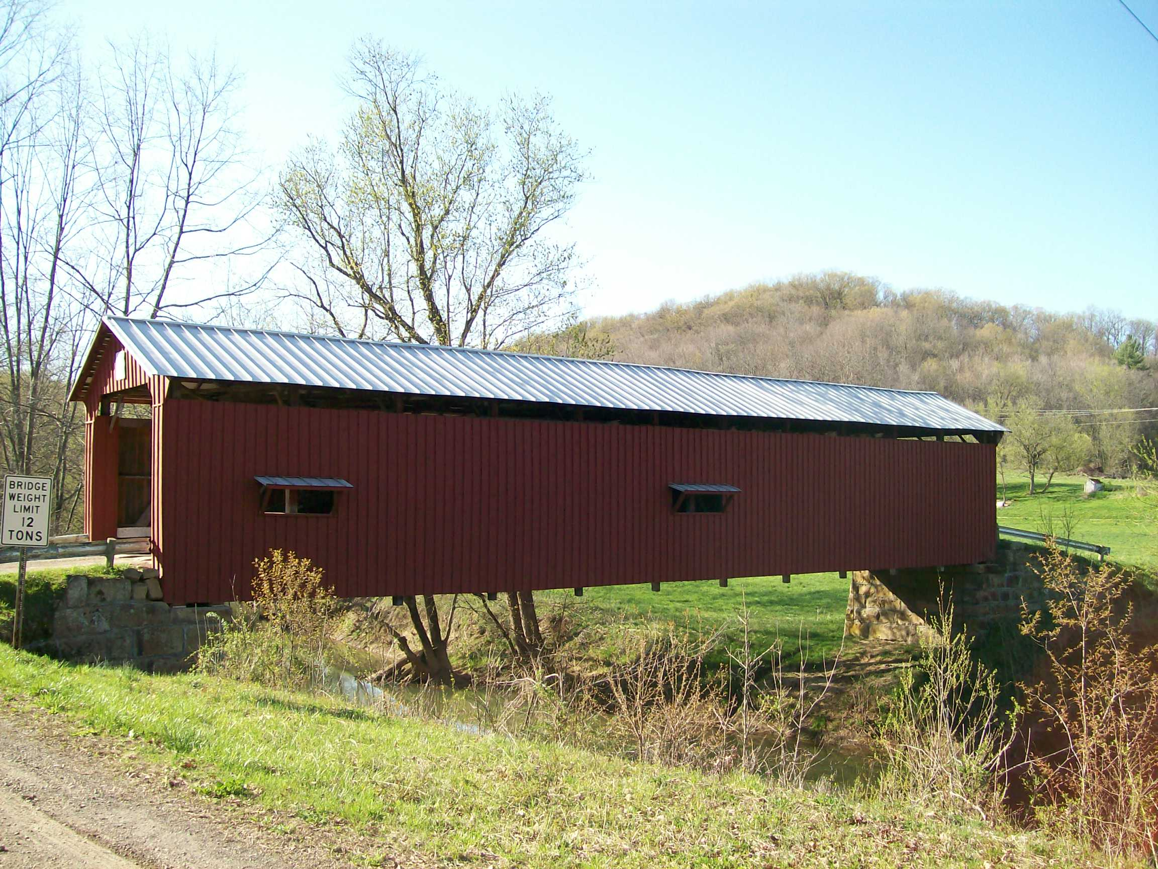 The Shinn Covered Bridge on Township Road 91 in Washington County, Ohio. The bridge is photographed looking southeast. The bridge is listed on the NRHP for Washington County, Ohio.